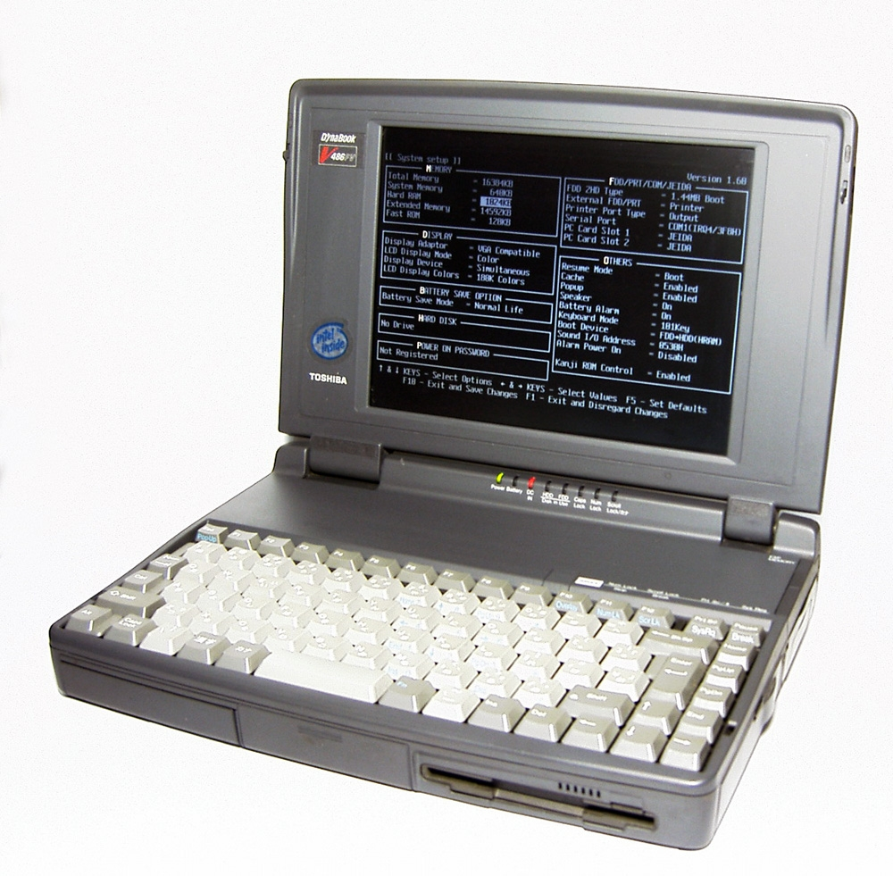 Personal Computer TOSHIBA_Dynabook_FV475_501TW Japan